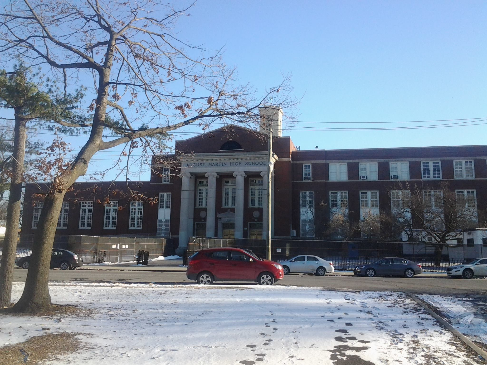 August Martin High School in South Jamaica, Queens, New York City. Building opened in 1942, when it was Woodrow Wilson High School. Present school was named for an African American aviator (1919-1968). Located at 156-10 Baisley Boulevard, opposite Baisley Pond Park.